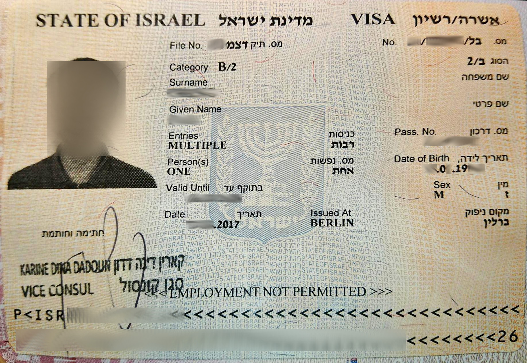 Israeli visa issued in Berlin.